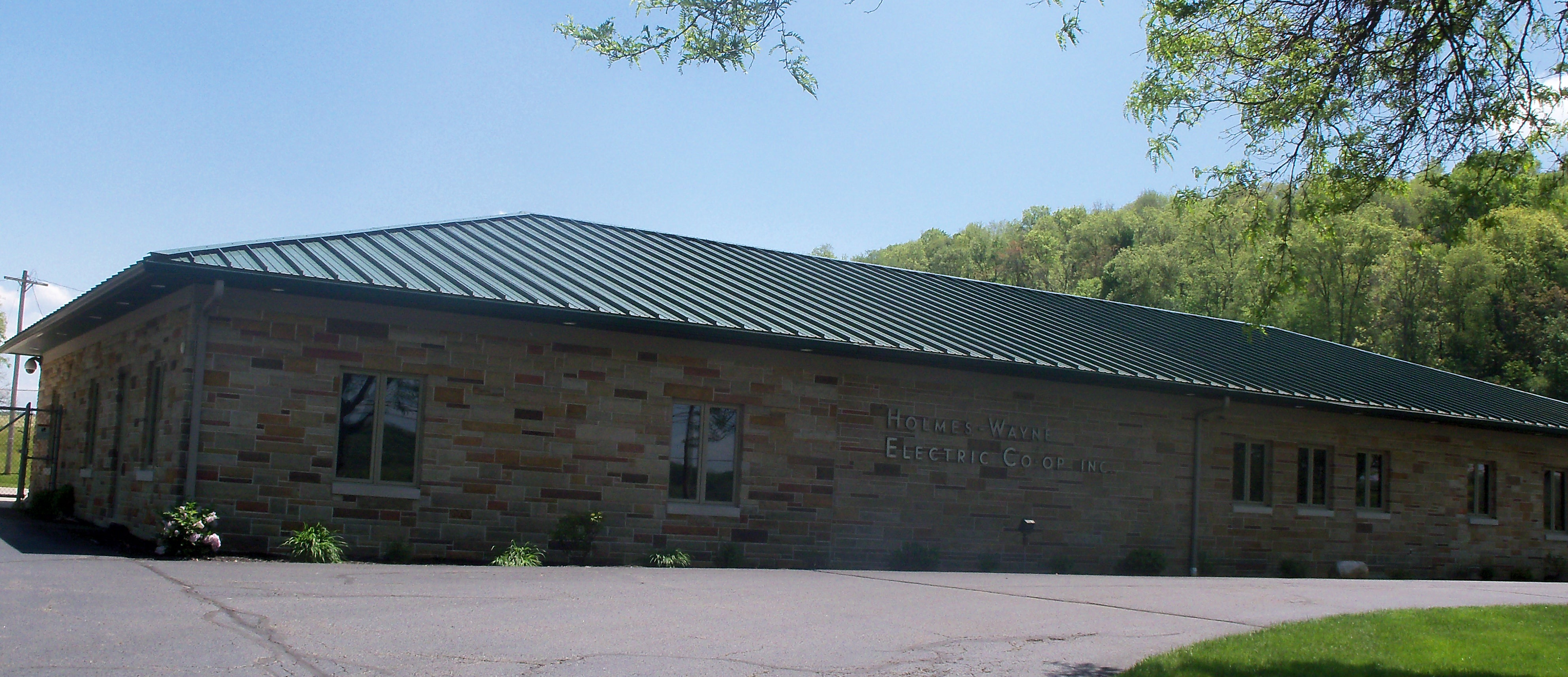 Holmes-Wayne Electric Cooperative services 18,000 customers in Holmes County, Ohio, Wayne County, Ohio and parts of six other counties. Main offices are located north of Millersburg, Ohio